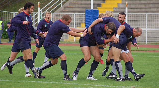 English team training session. Cropped image.